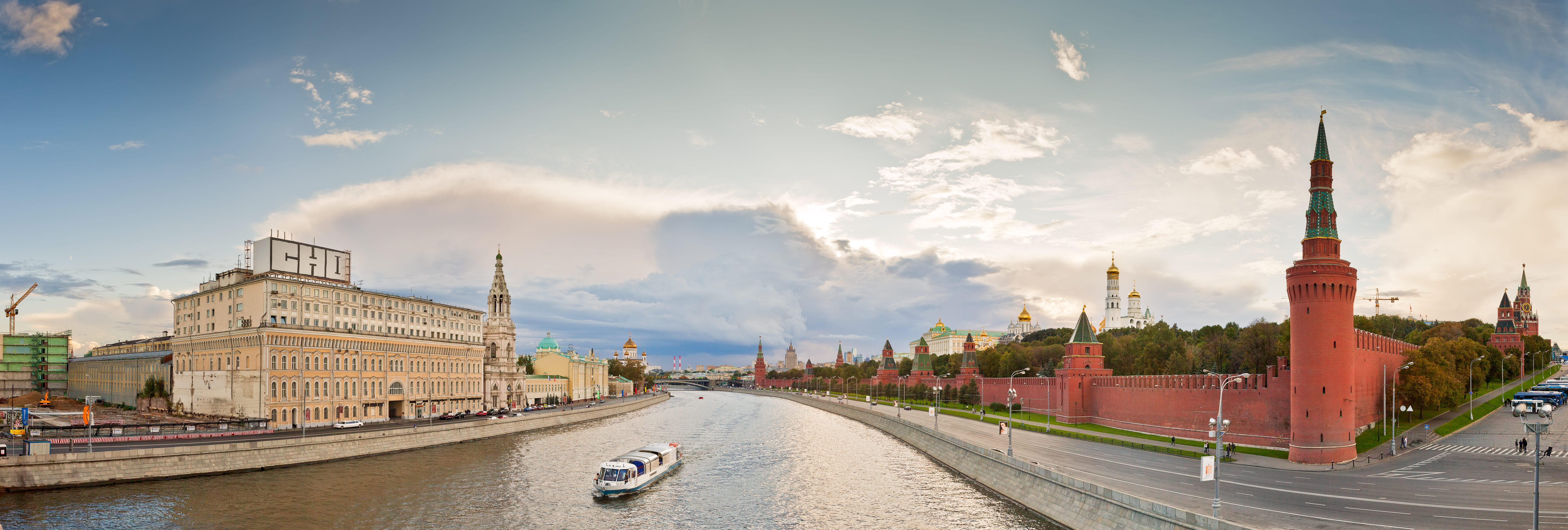 View to the Moscow Kremlin and river banks from Bolshoy Moskvoretsky Bridge